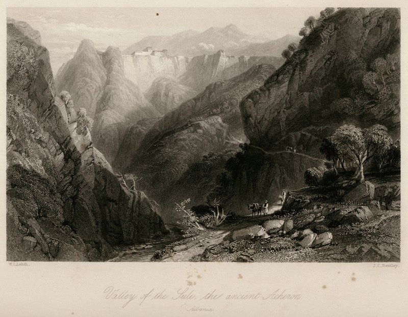 Illustration from Constantinople and the Scenery of the Seven Churches of Asia Minor illustrated…, With an historical Account of Constantinople, and Descriptions of the Plates…, London/Paris, Fisher, Son & Co. (1836-38), by Robert Walsh and Thomas Allom